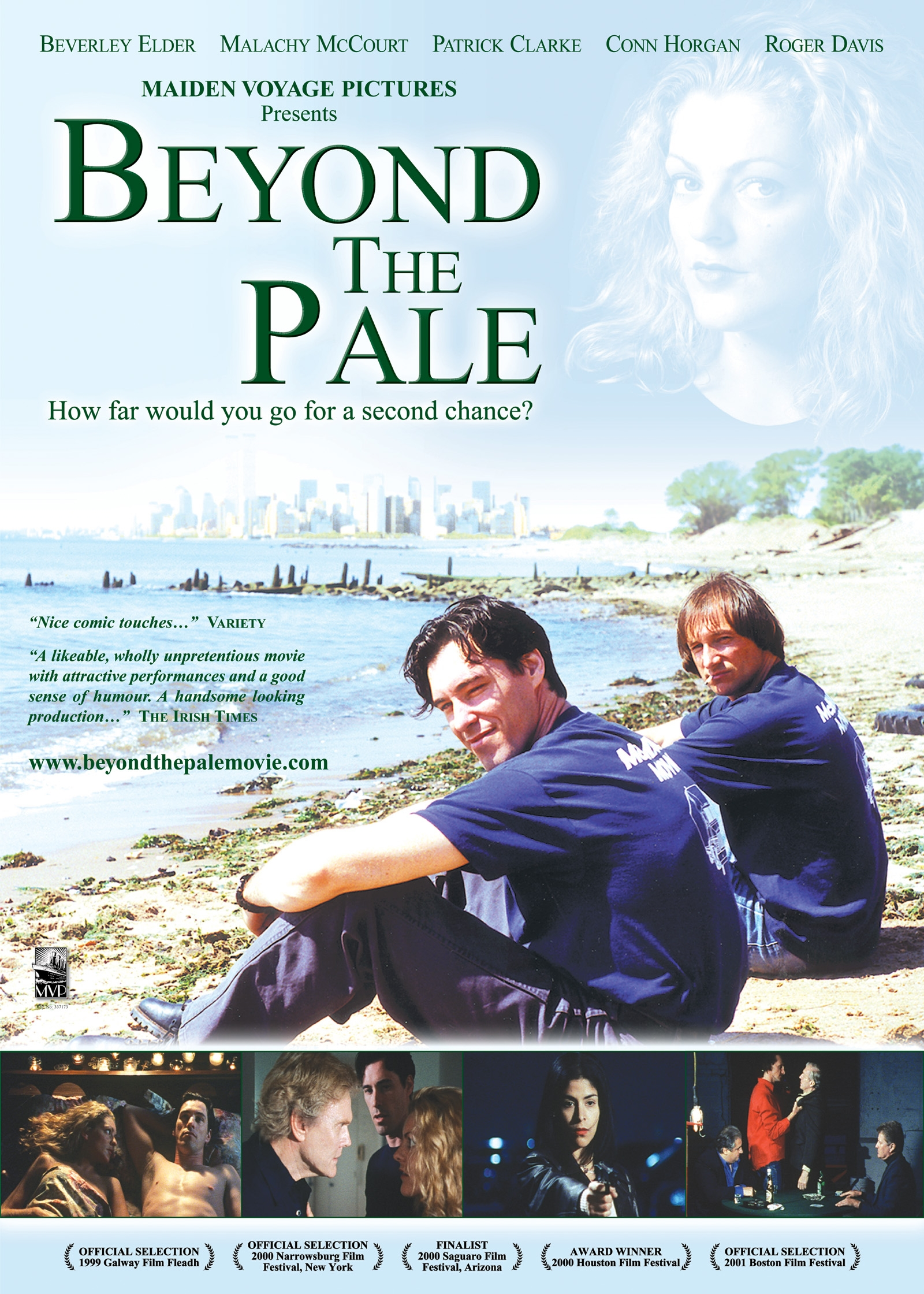 Poster for 1999 Feature Film, Beyond the Pale